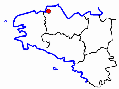 Description: Map for localisazion of cantons of Bretagne region in France Source: made by Hervé Tigier in april 2005 from another large map (published in 1990)